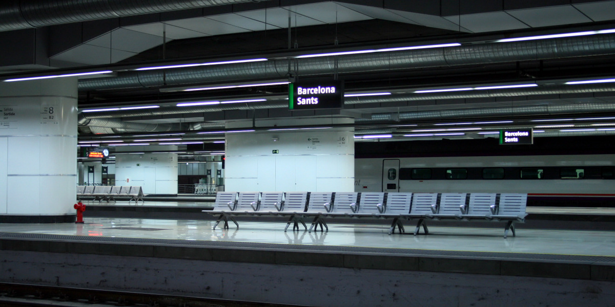 Barcelona Sants railway station.